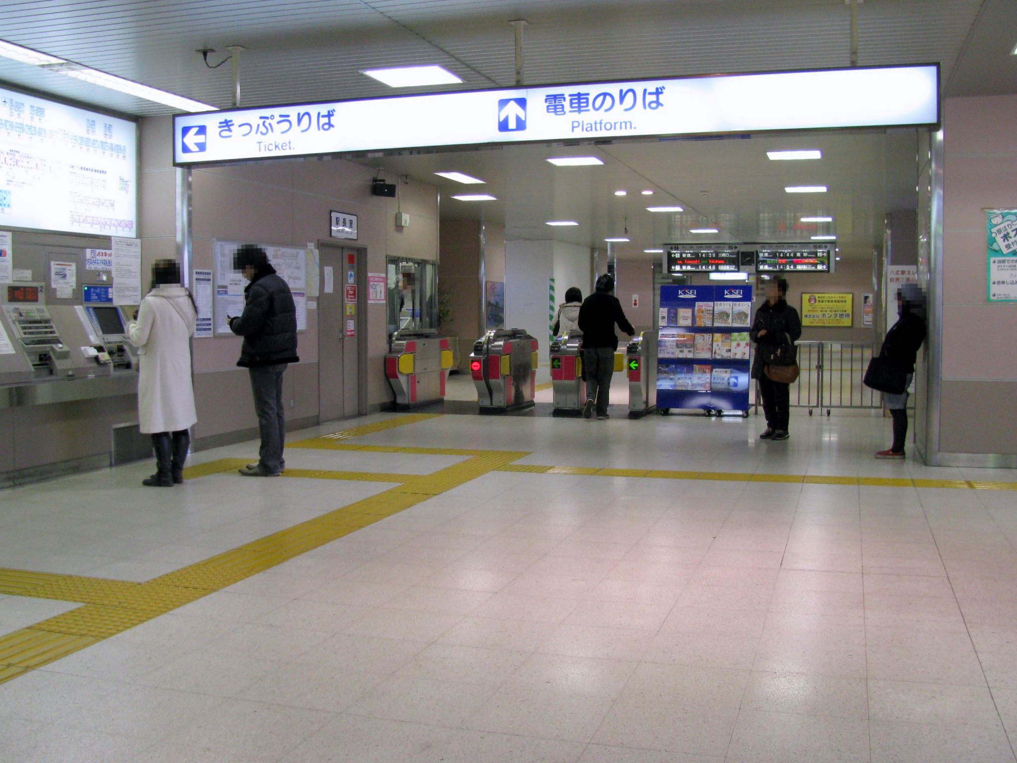 Keisei Yahiro Station